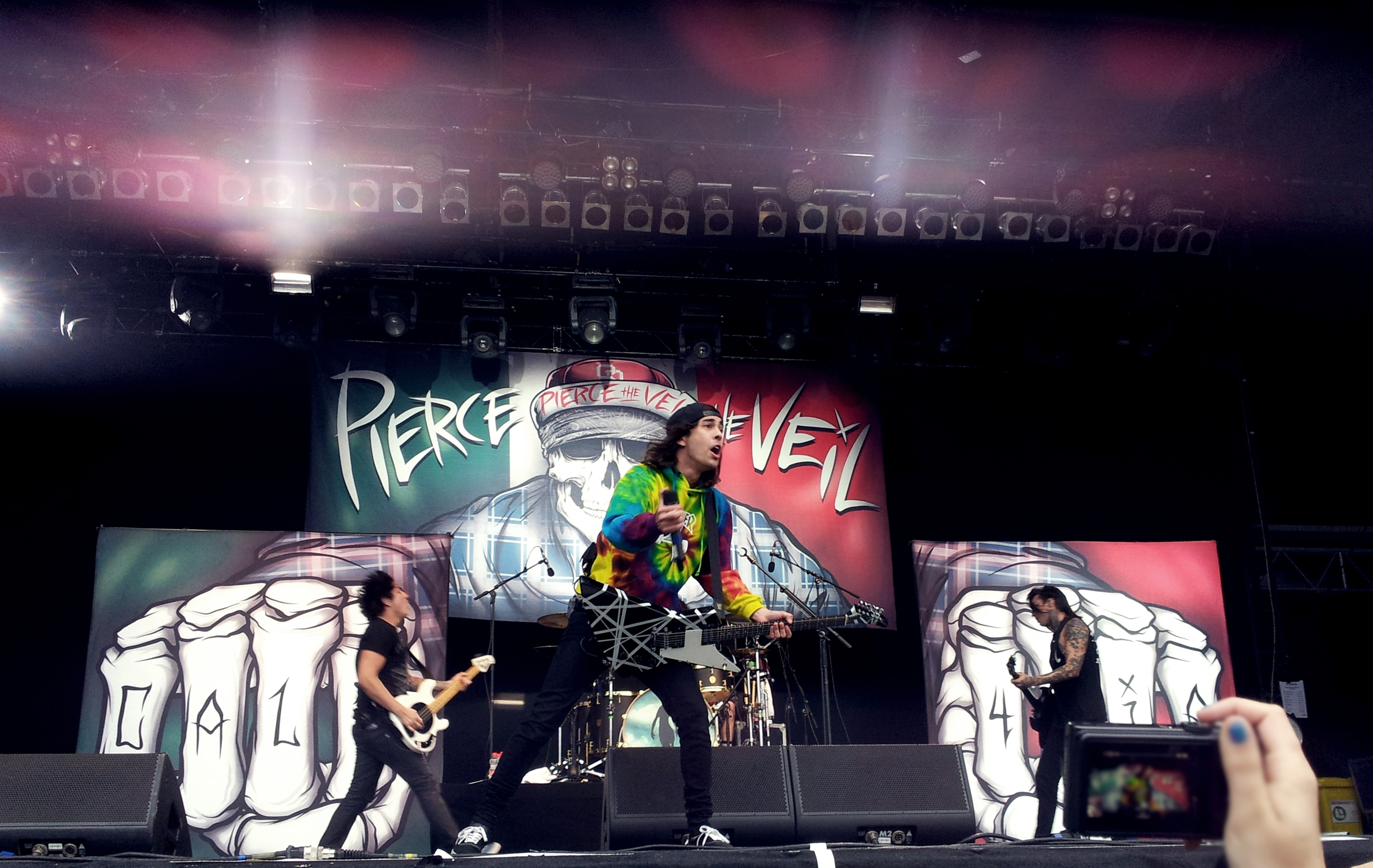 Pierce the Veil performing live on Clubstage at Rock am Ring 2013